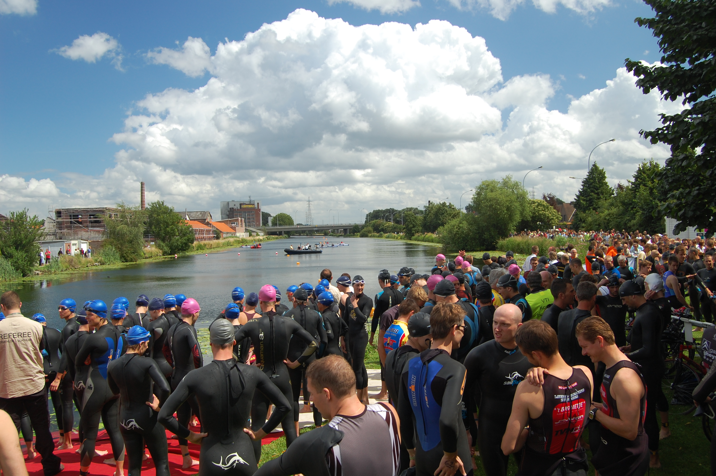 Belgian national championship quarter distance triathlon in Kortrijk, 2008. Swimmers ready for the start. Belgisch kampioenschap kwarttriatlon te Kortrijk, 2008. De zwemstart.